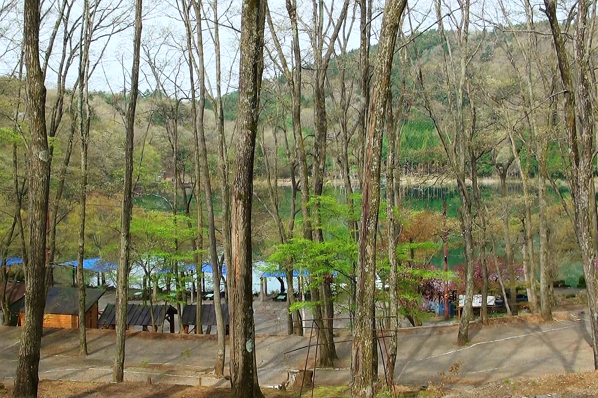 The view of the Lake Shibire from the campground of the forest